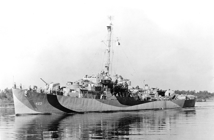 The U.S. Navy destroyer escort USS Dufilho (DE-423) underway off Houston, Texas (USA), on 24 July 1944. The ship is painted in Measure 32, Design 14D.